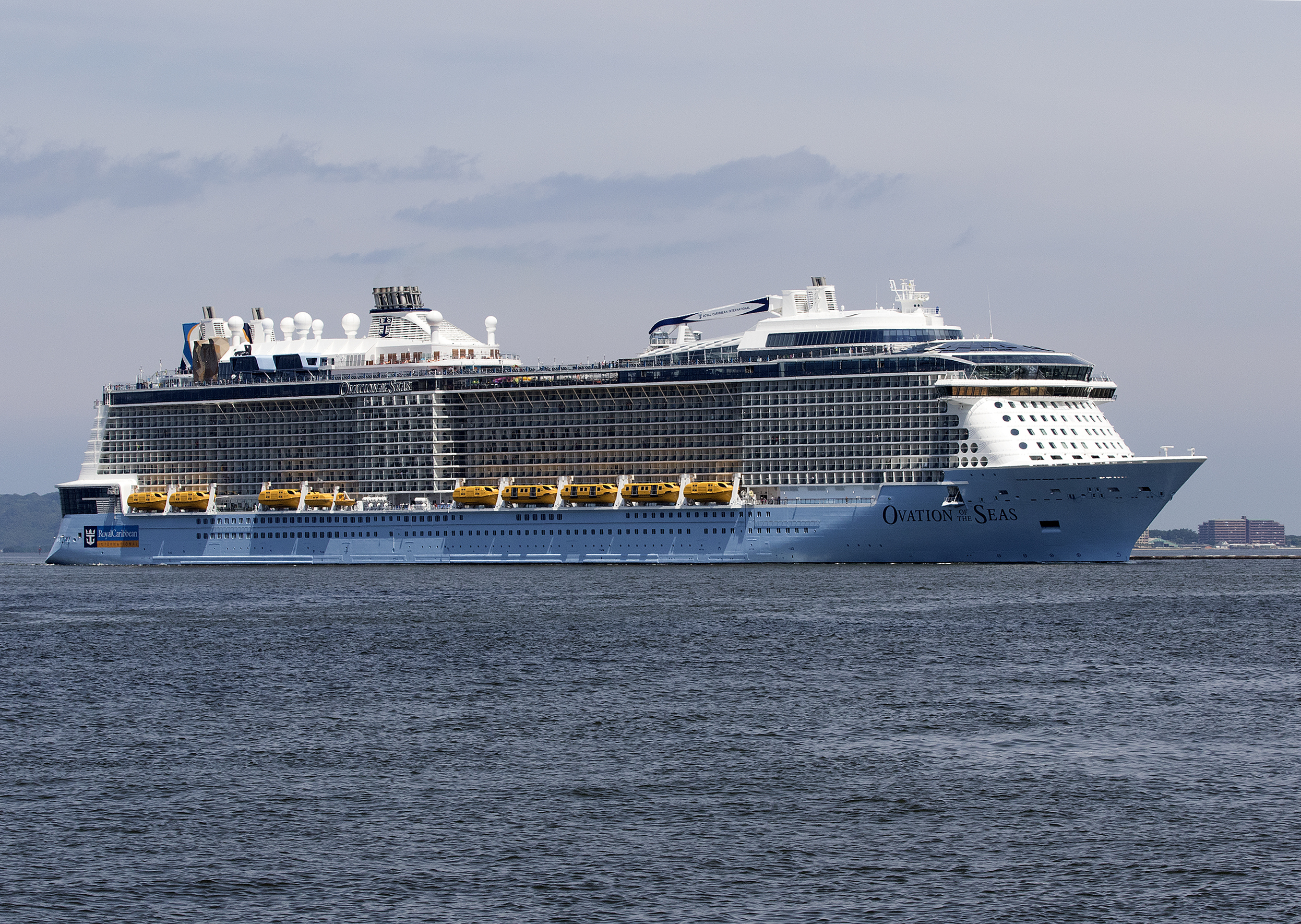 Ovation of the Seas at Hakata